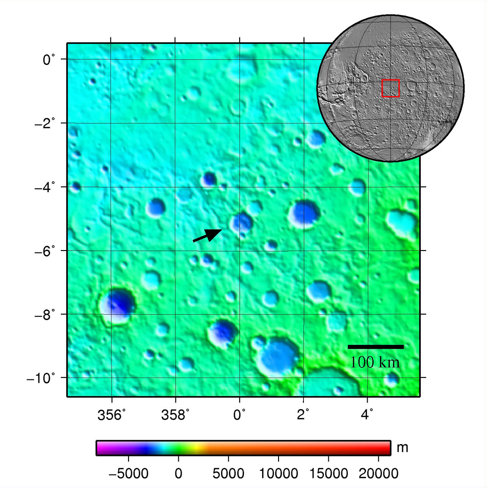 crater Airy (Mars) topography